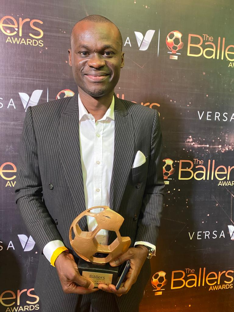 Oluwashina at 2019 Ballers Awards held in Lagos, Nigeria.